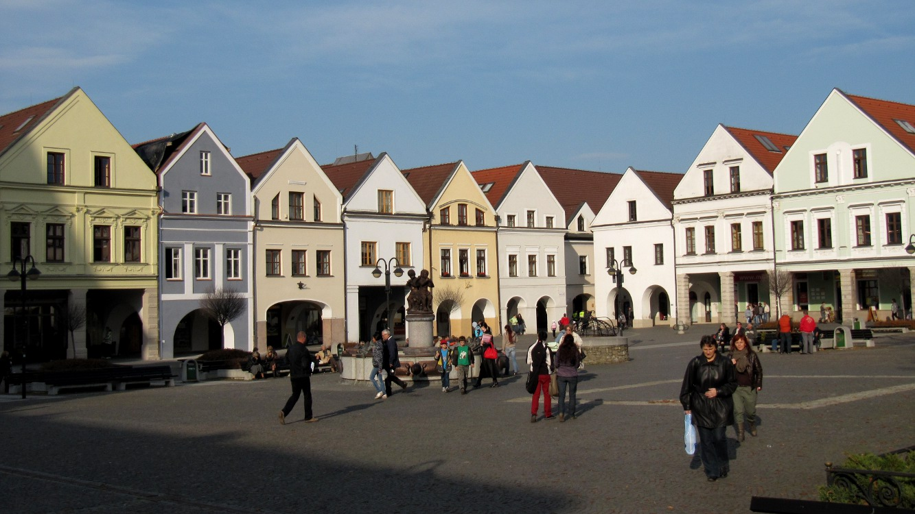 Mariánske námestie - main town square of Žilina, Slovakia